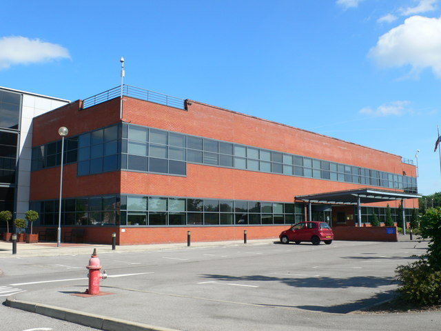 Chester Business Park The offices of Bristol Myers Squibb in the Business Park to the south of Chester.